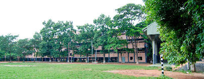 The South Building, viewed from the school football ground.